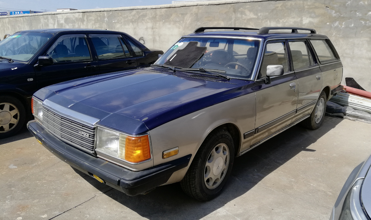 Hainan-Mazda HMC6470 photographed in Shanghai, China.